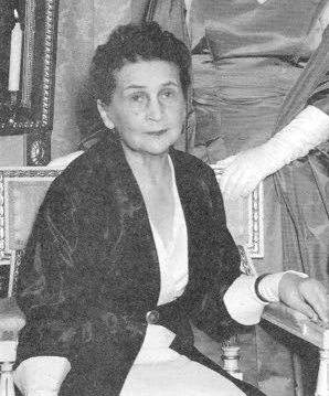 Sylvi Kekkonen,writer and wife of Urho Kekkonen